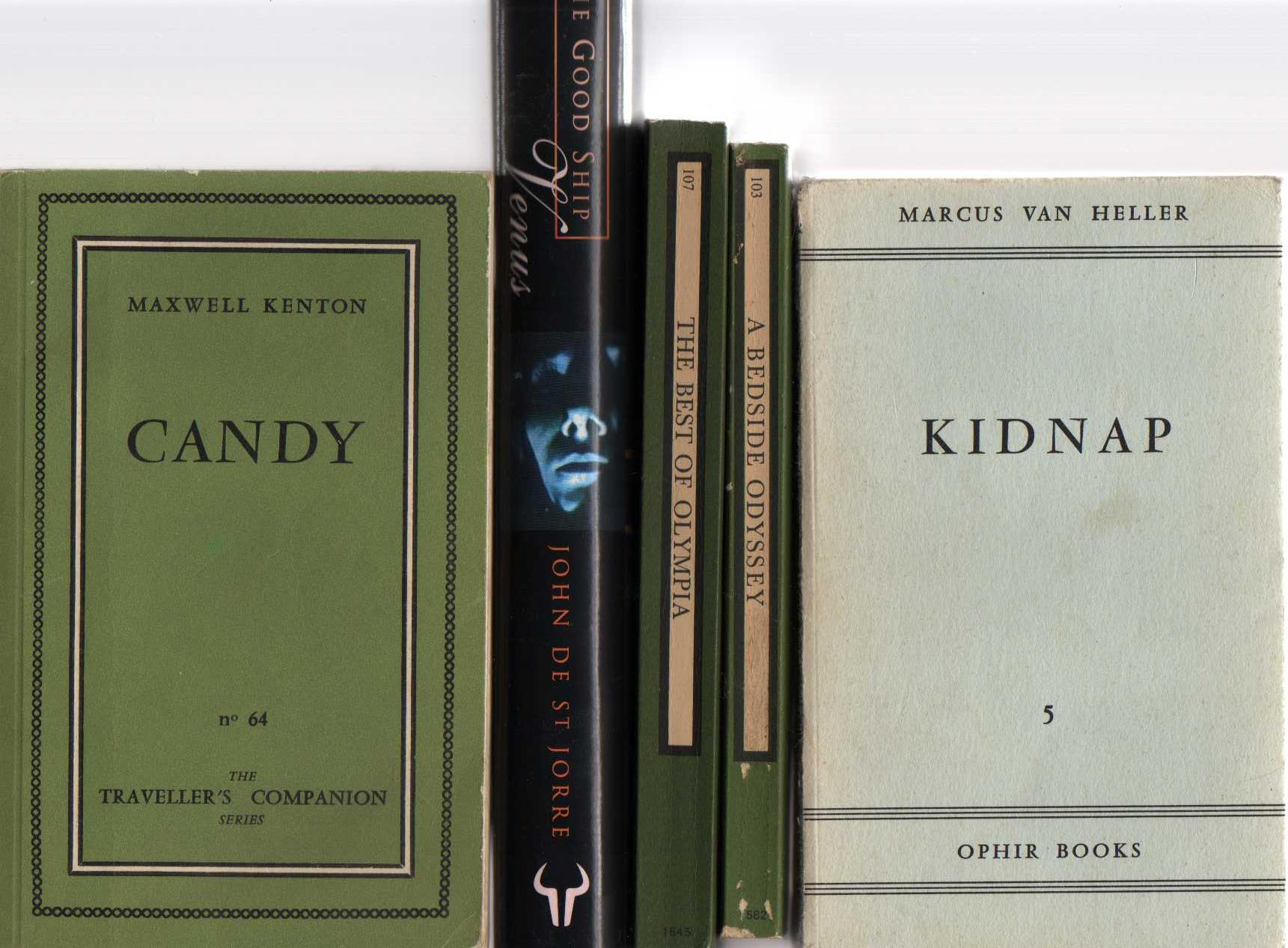 Collection of books related to the Olympia Press. (Marcus van Heller = John Stevenson (writer))